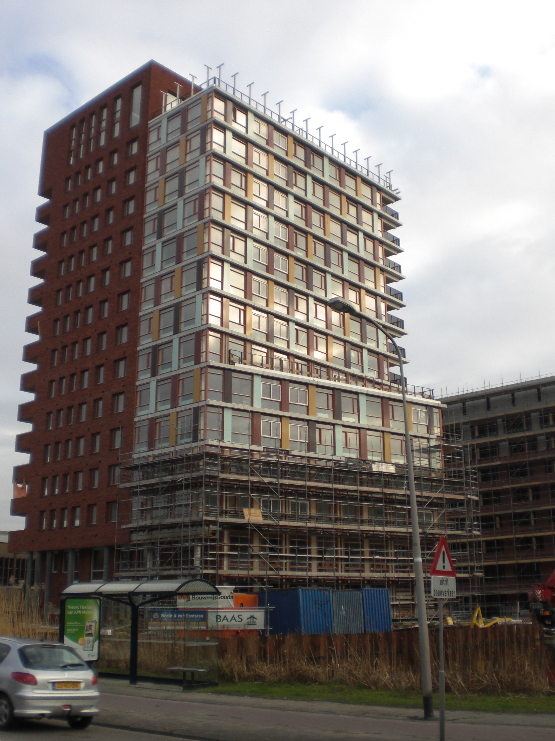 Ronssetoren in Gouda under construction